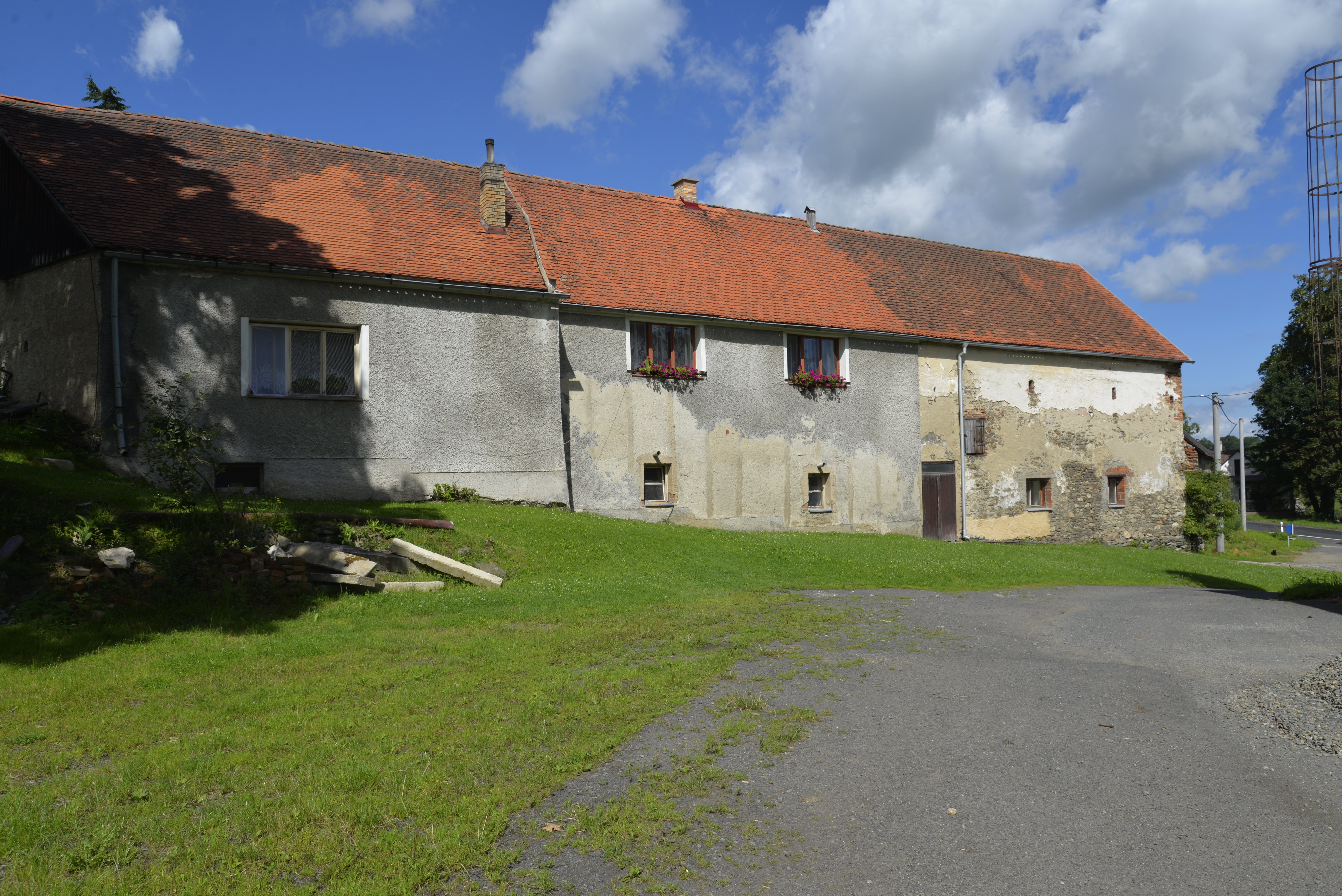 Castle Hlavňovice, Hlavňovice 1